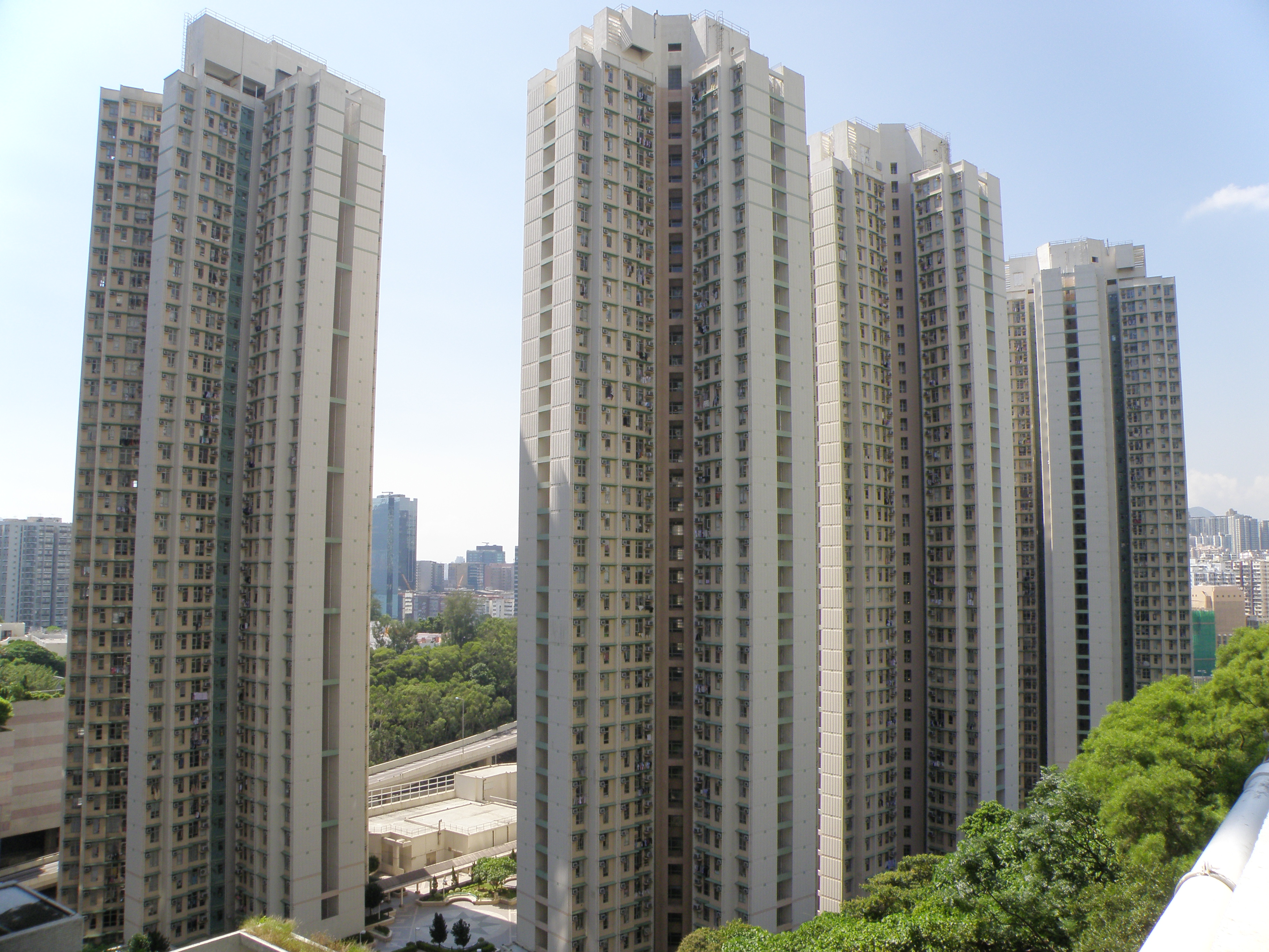 Lei On Court in Lam Tin, Hong Kong.